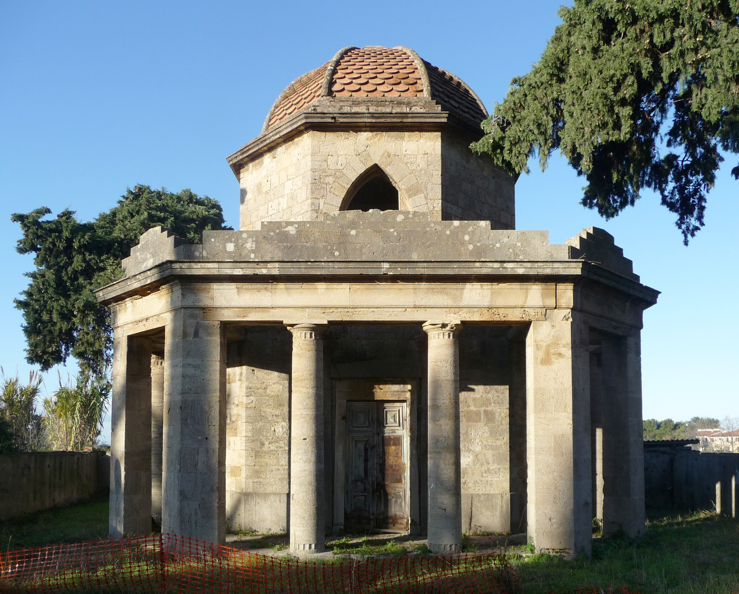 Cappella di Sant'Edoardo, Livorno, Italy